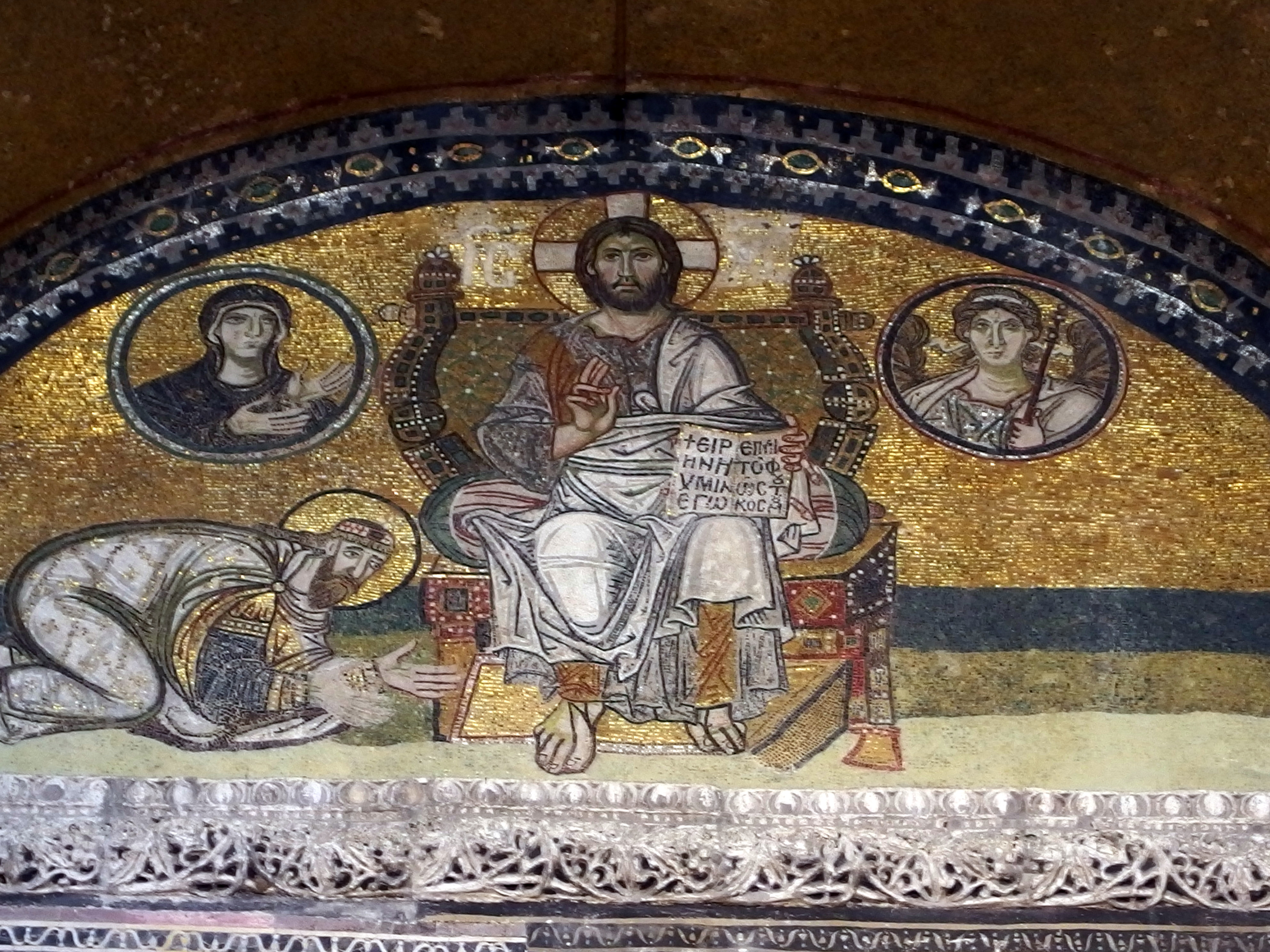 2013-12-03 in Istanbul.